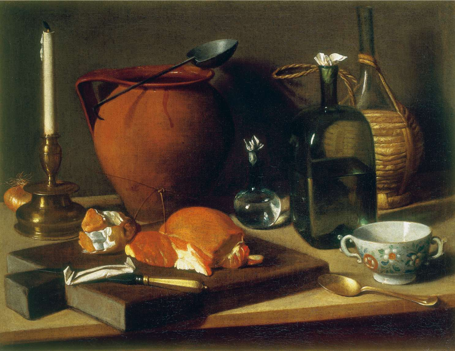 Still Life with Cup, Bottle, Clay Pot and Candlestick